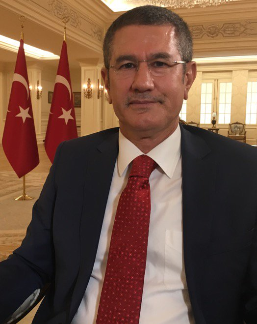 Deputy Prime Minister Nurettin Canikli, July 22, 2016 Image donated to Wikimedia UK by Mark Lowen, former BBC correspondent in Turkey.